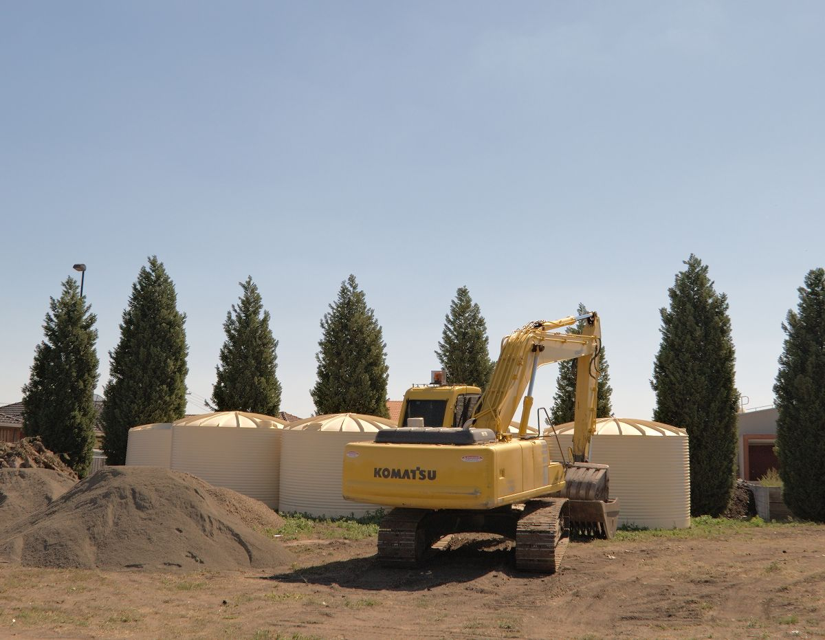 Rainwater tanks being installed. I had assumed they were being put underground, but I don't honestly know. Model CP23650 (Corrugated-profile, 23650 litres) Capacity 23650 litres (each) Shape circle (rotationally moulded) Material polyethylene (poly) Diameter (m) 3.67 Height (m) 2.64